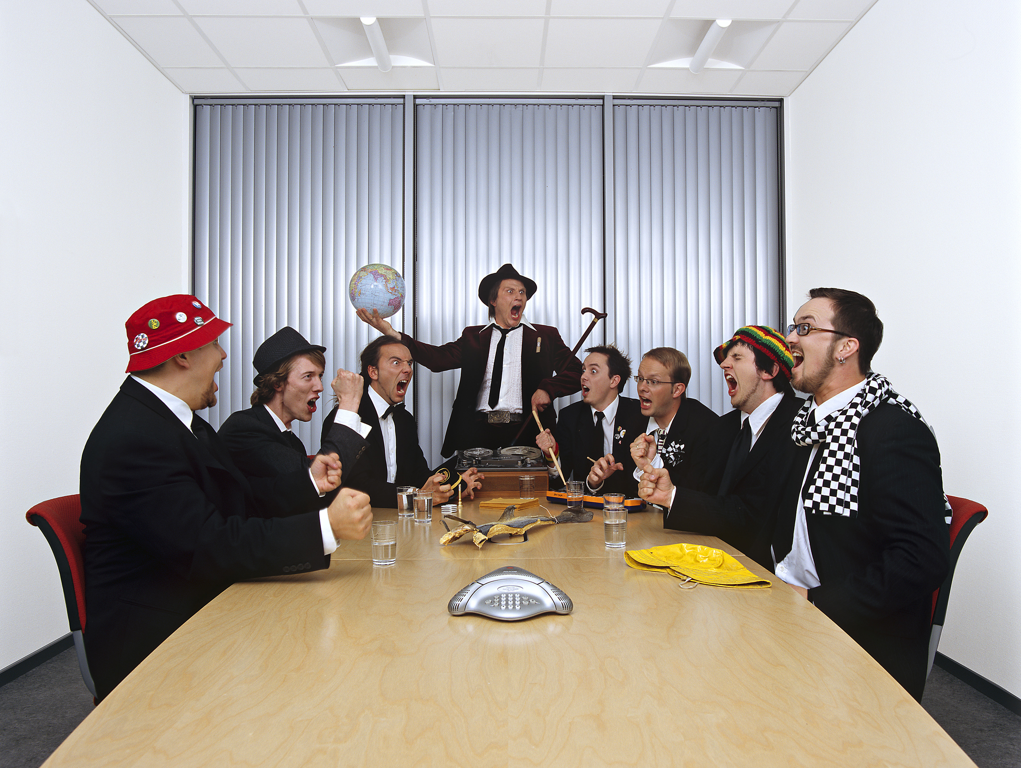 Ska Patrol Foto Bjørn Joachimsen